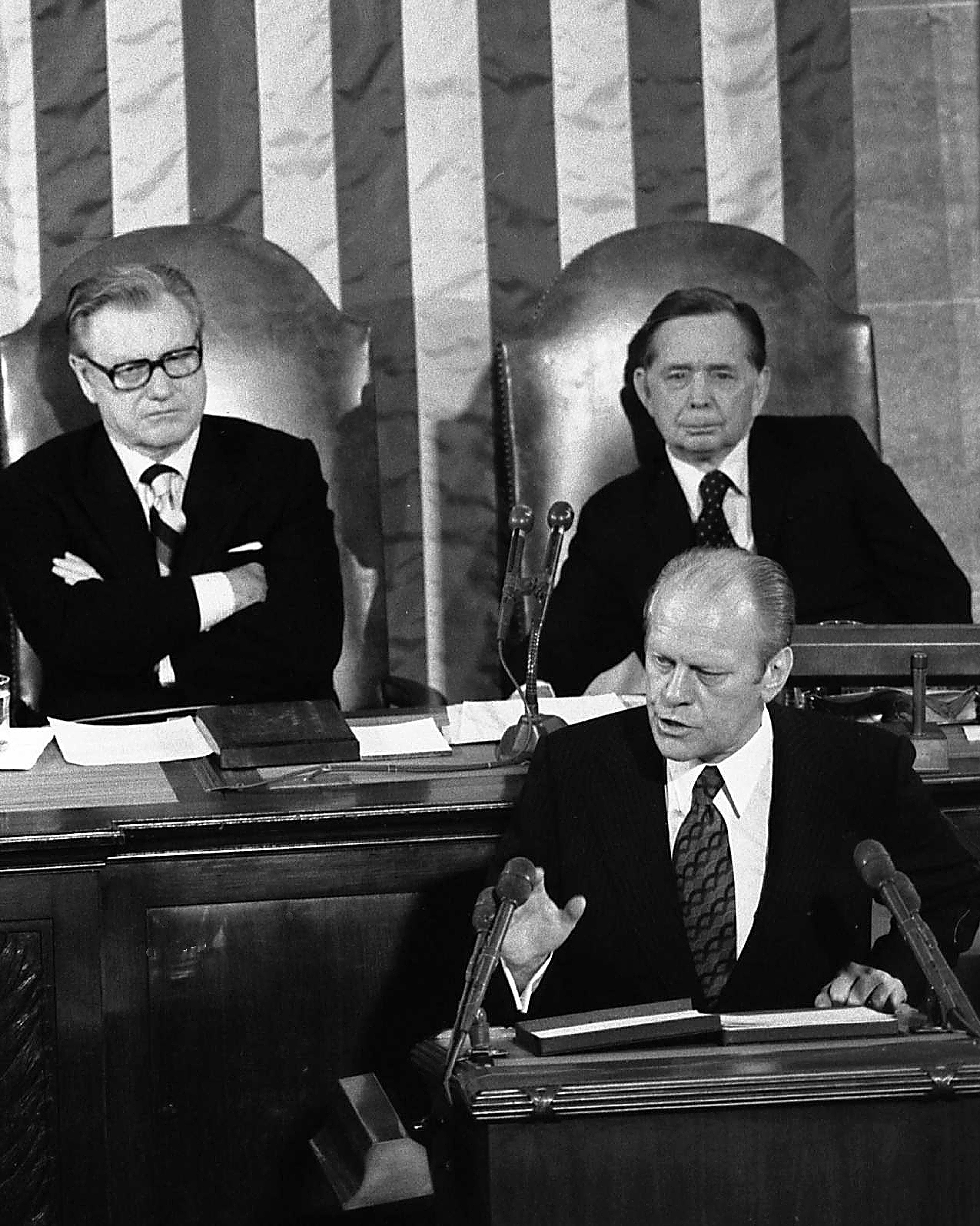 President Gerald Ford addresses the nation on the State of the Union, Jan. 15, 1975, from the U.S. Capitol in Washington, D.C. Vice President Nelson Rockefeller, background-left, and House Speaker Carl Albert listen during the address.